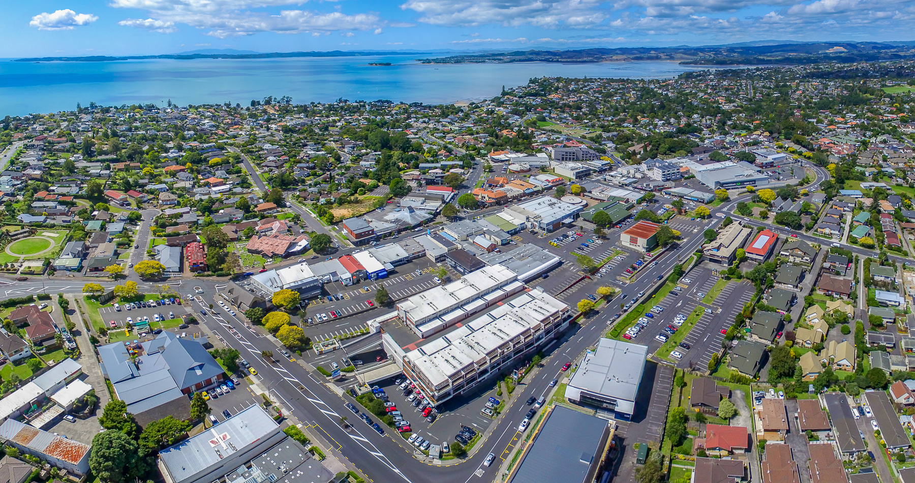 Aerial overview of central Howick